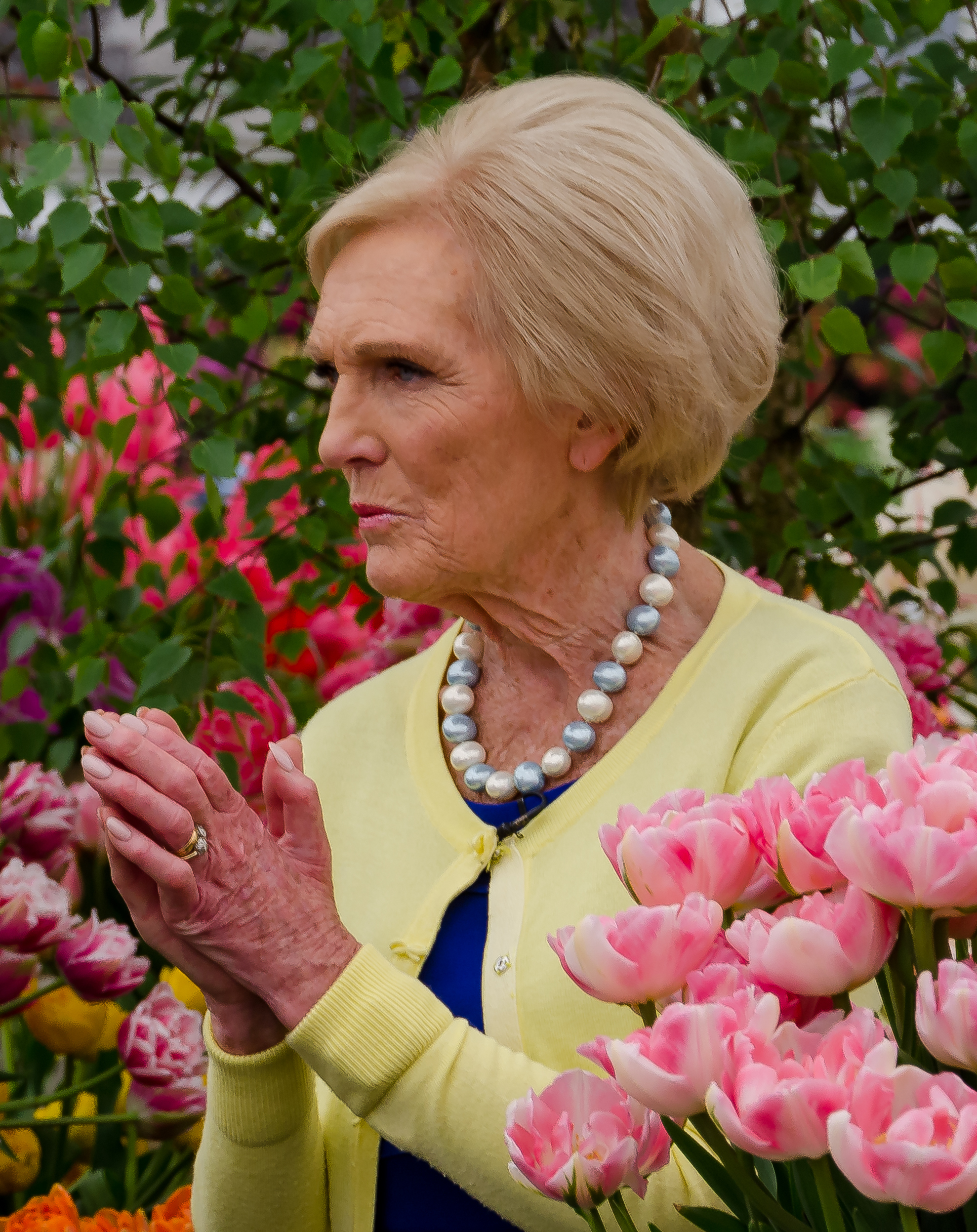 Mary Berry works wonders at Chelsea